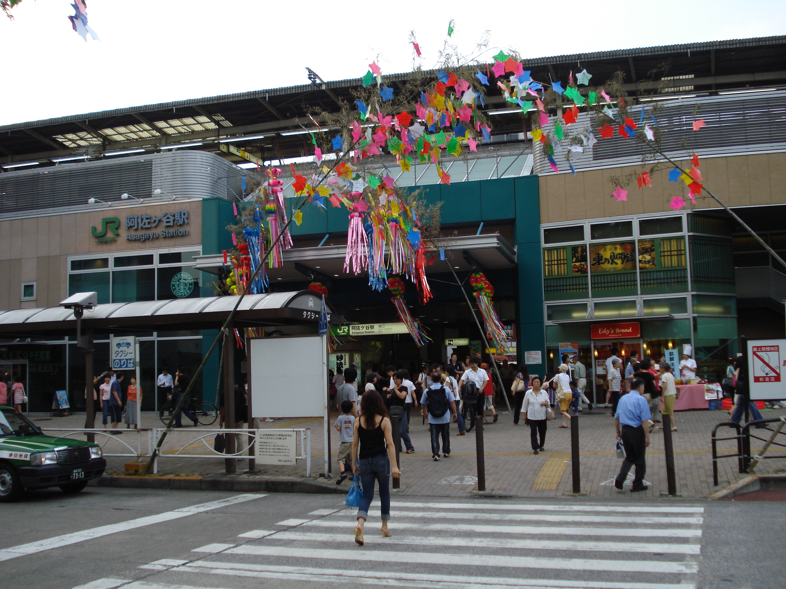 South Exit of Asagaya Station